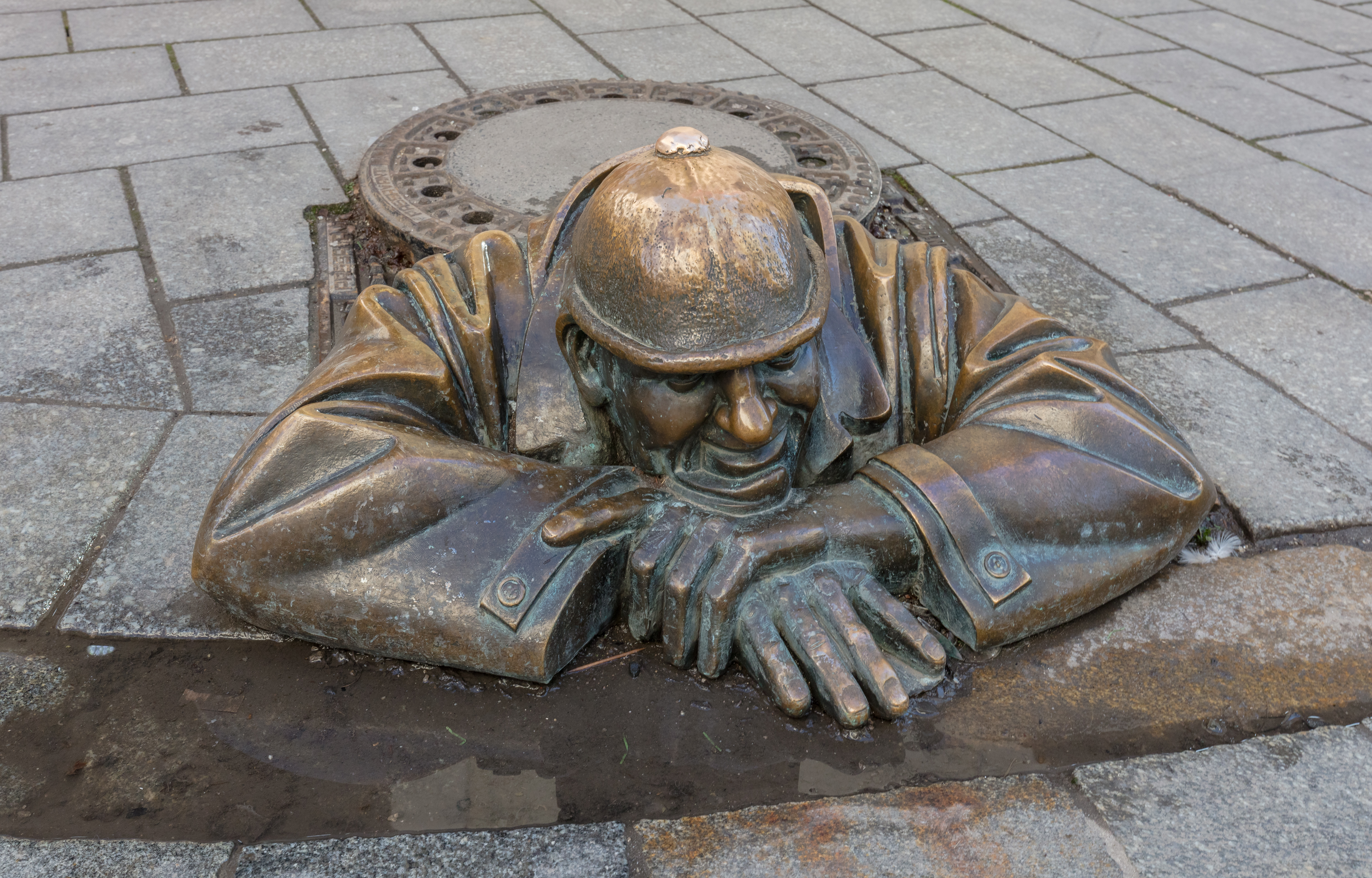 Statue of Man at Work, Bratislava, Slovakia